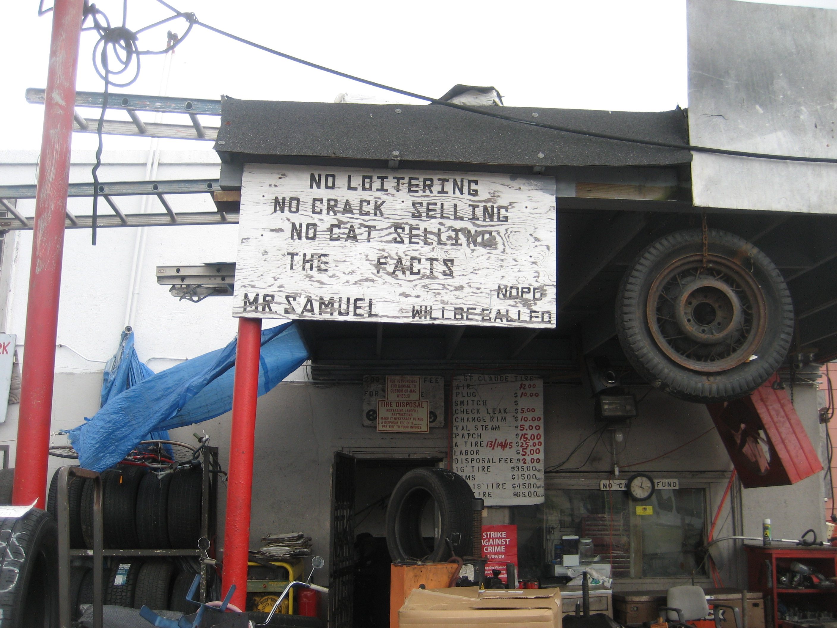 Tire repair shop, St. Claude Avenue, Bywater section of New Orleans. Sign prohibits loitering, selling of crack cocaine, and "cat selling" (a slang euphemism for prostitution). "NOPD will be called" refers to New Orleans Police Department.